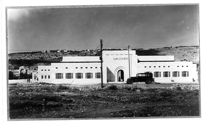 Haifa old court